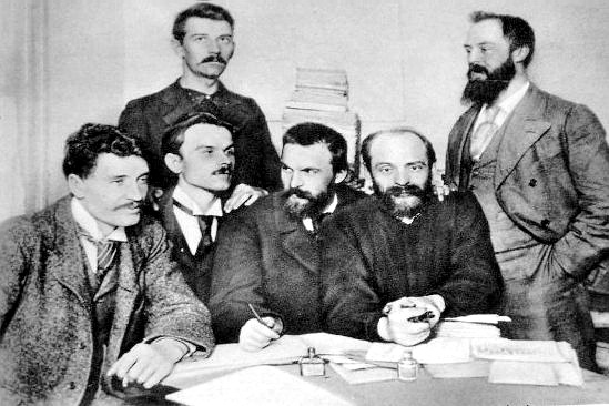 A group of Polish socialists in London in 1896. Future Polish president Ignacy Mościcki and future Polish marshall Józef Piłsudski are among others.